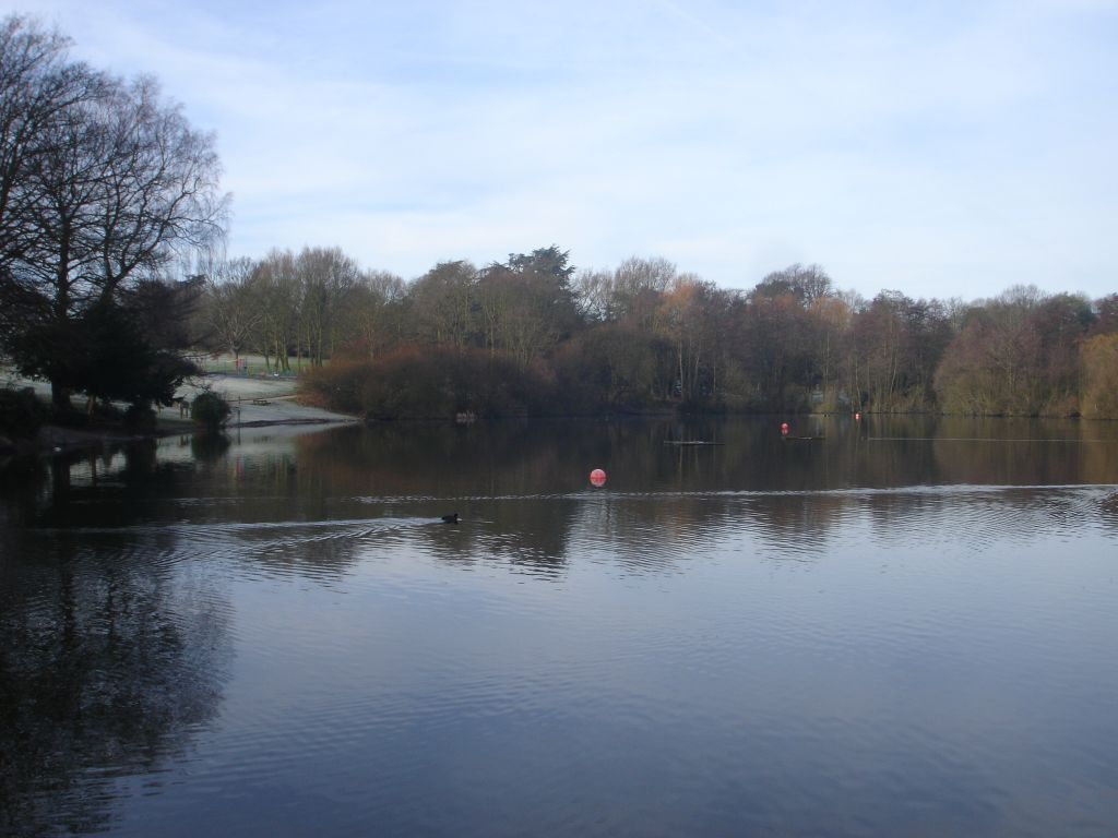 Author: Spicke01. Acton Park lake taken early February 2007.